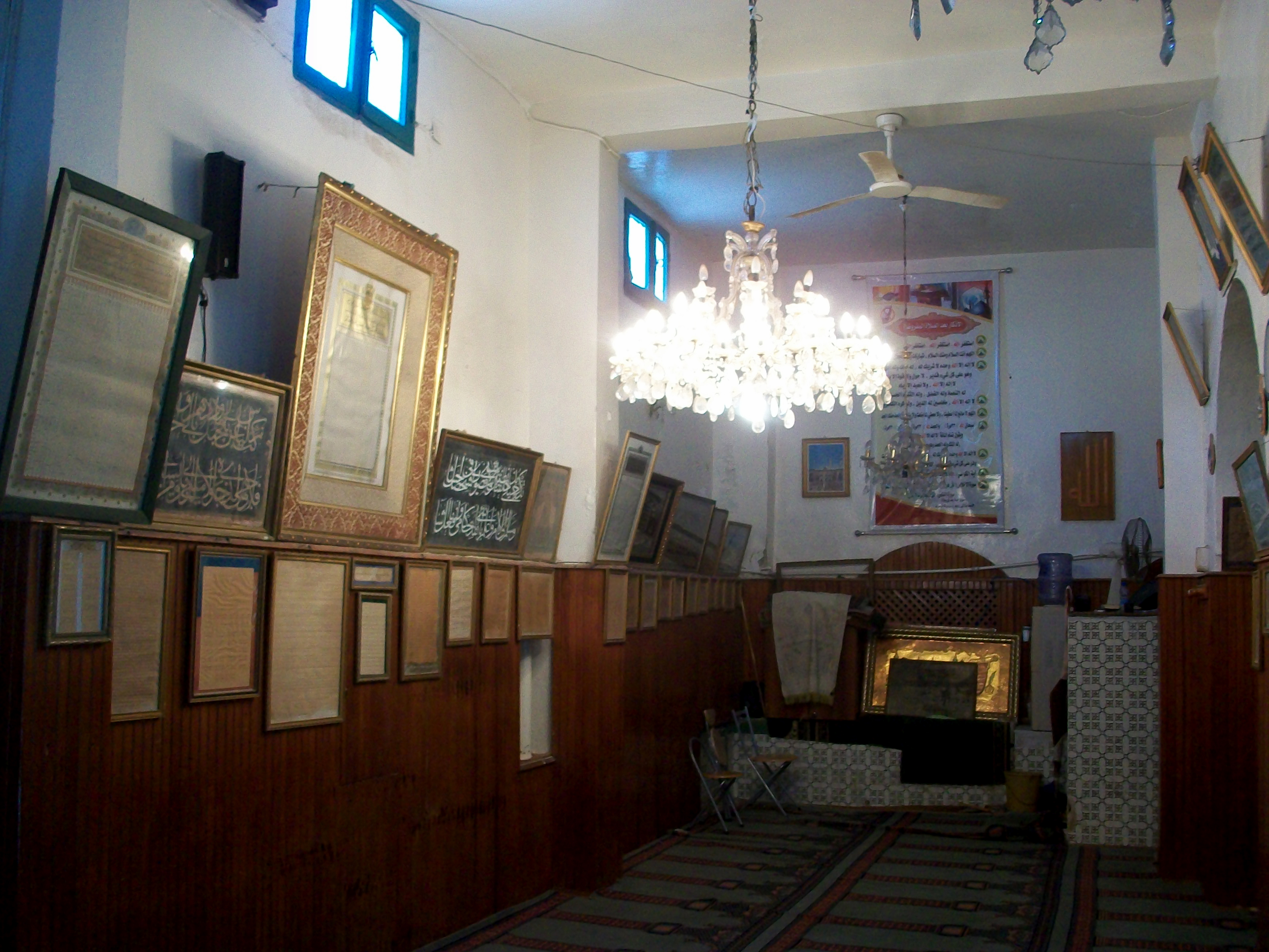 The inside of the Qadiriyya Zawiya in the medina of Libya's capital Tripoli.